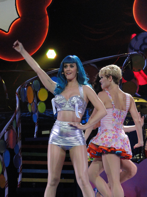 Katy Perry performing live in Seattle, WA in July 2011